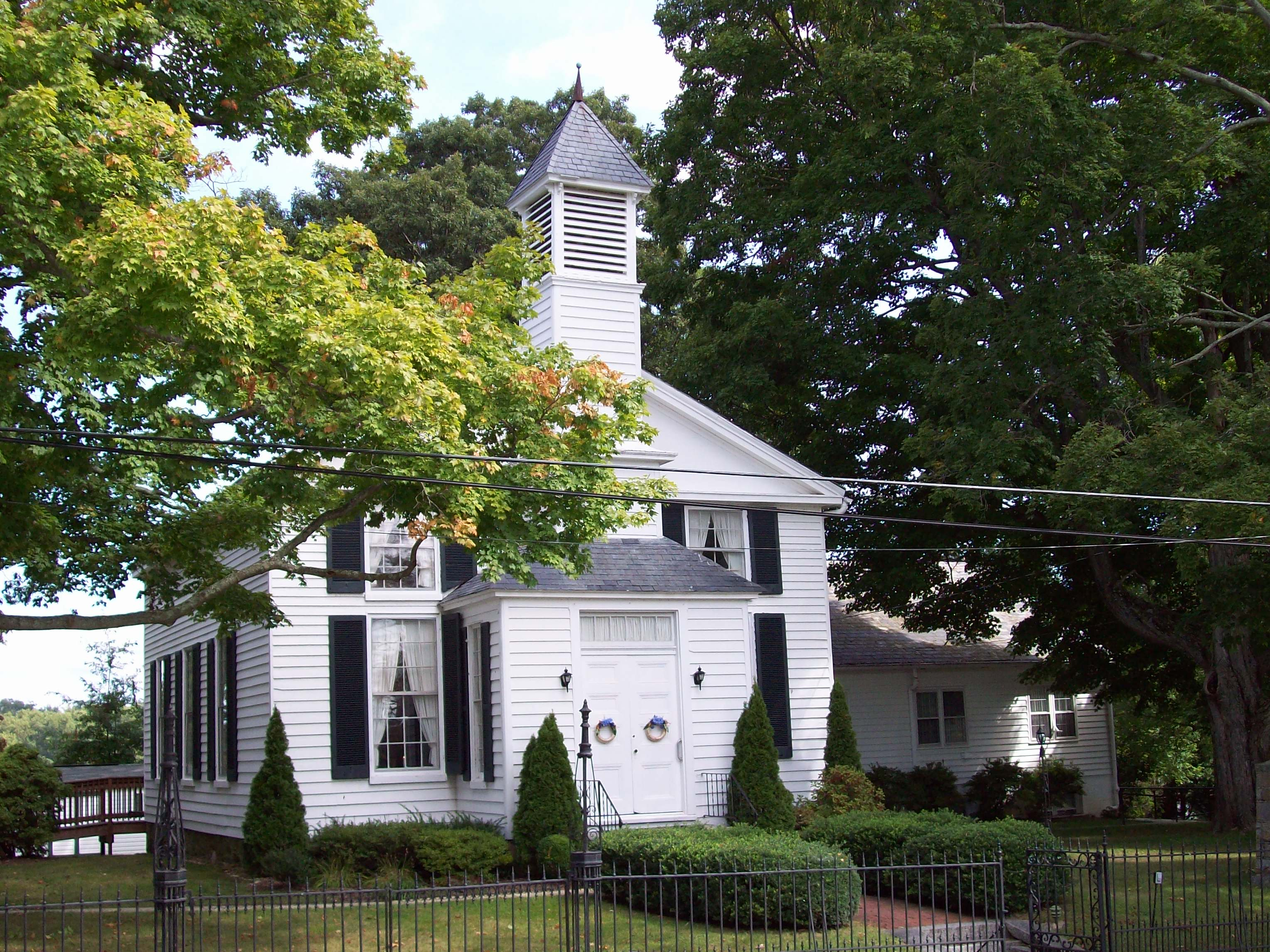 Outside of the Darlington United Methodist Church.